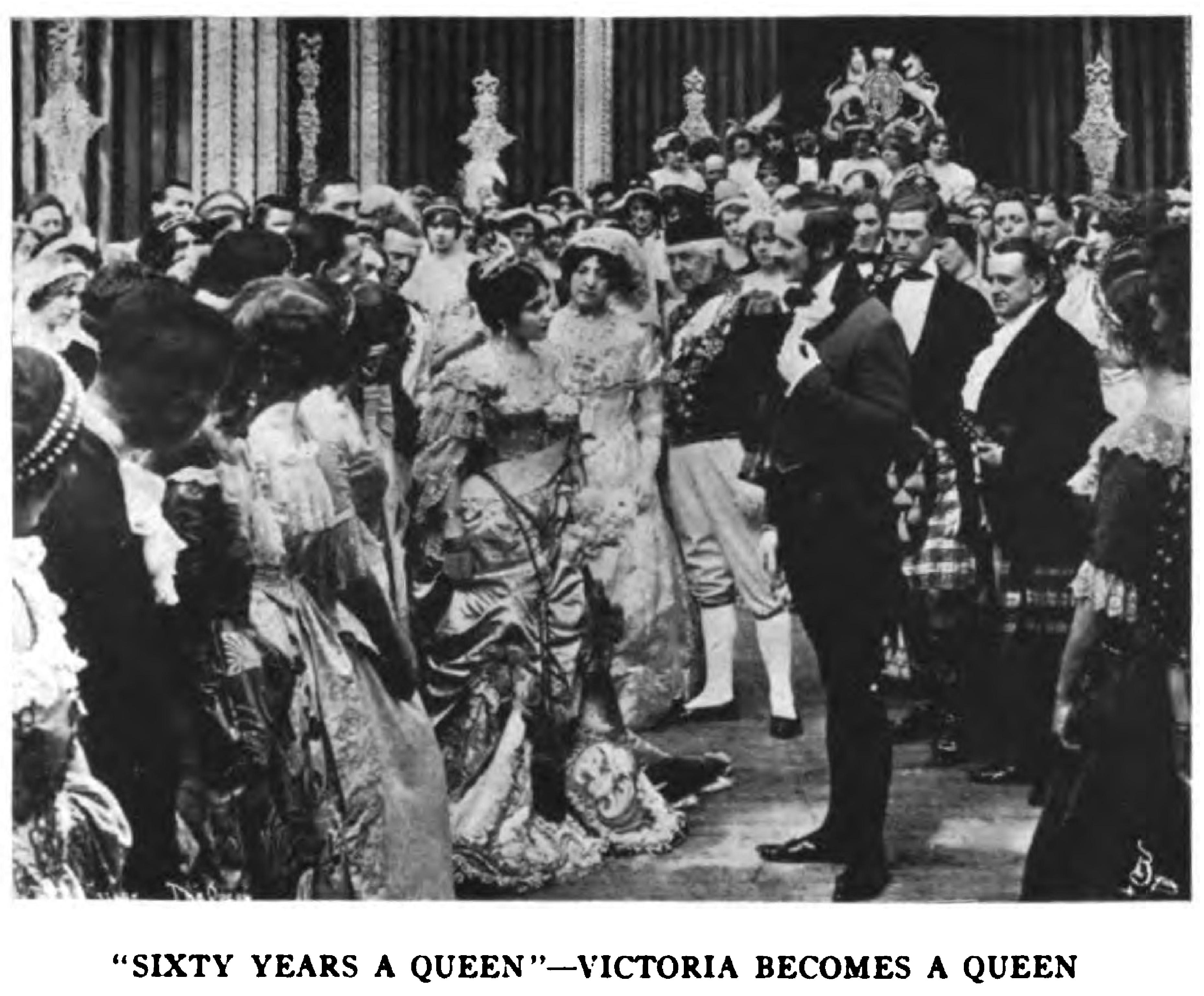 Still from motion picture: Sixty Years a Queen (1913) B&W Film : Eight reels / 7500 feet Format: standard 35 mm spherical 1.37:1 Director: Bert Haldane. Cast: Blanche Forsythe, Mrs. Lytton, J. Hastings Batson, Jack Brunswick, Gilbert Esmond, Fred Paul, Roy Travers, E. Story Gofton, Rolf Leslie. Will Barker Film Company production. Produced by Will Barker, Jack Smith and Ernest Shirley in association with G.B. Samuelson. Scenario by G.B. Samuelson, Arthur Shirley and Harry Engholm, from a book by Sir Herbert Maxwell.